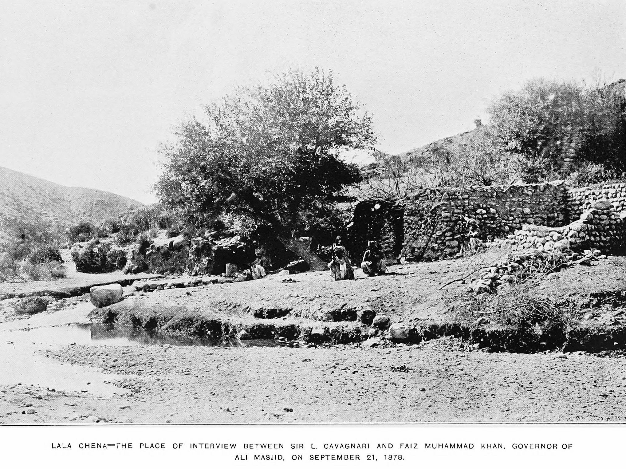 Site of dispute preceding Second Anglo-Afghan War